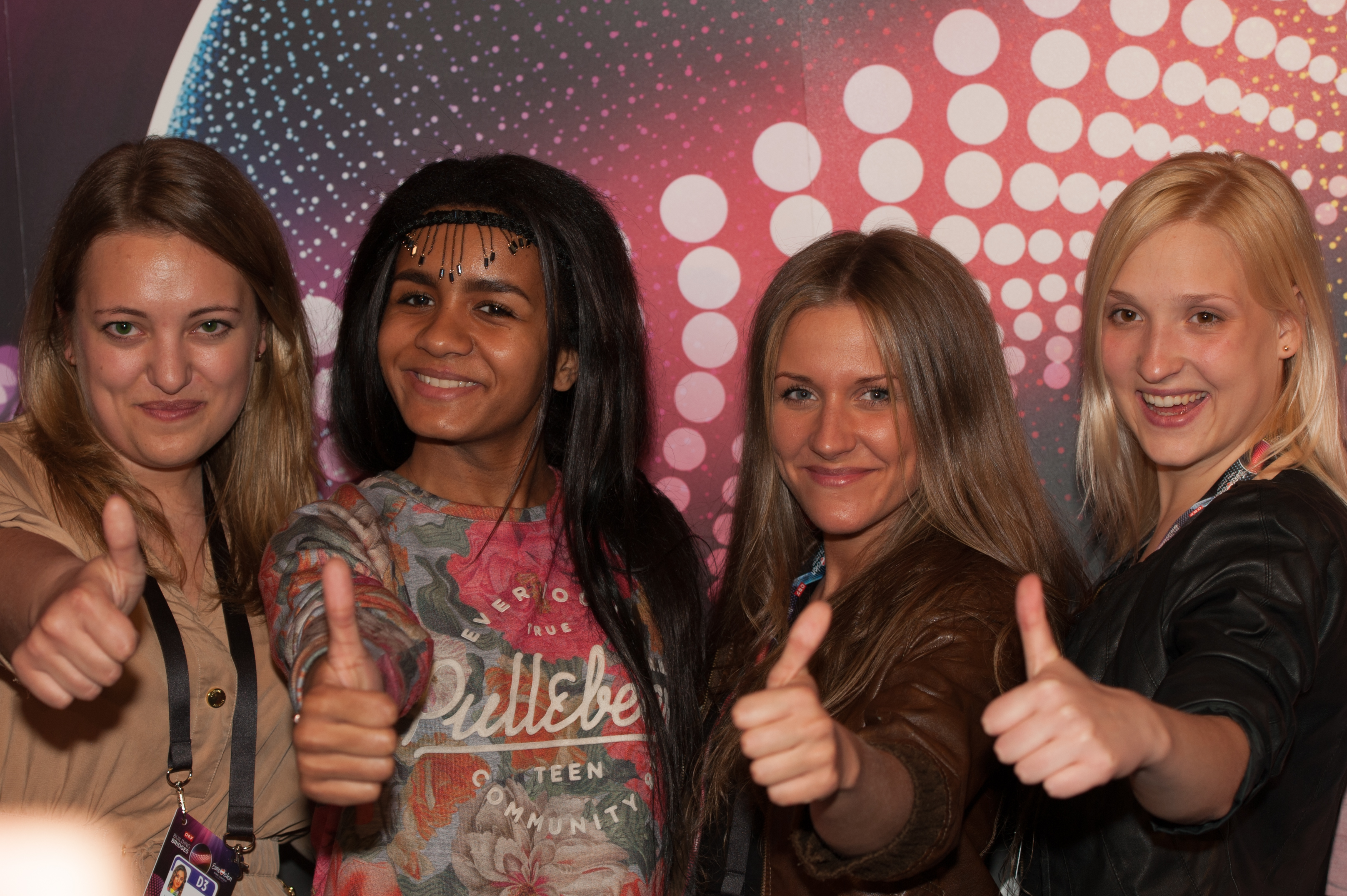 Eurovision Song Contest Vienna 2015: Aminata